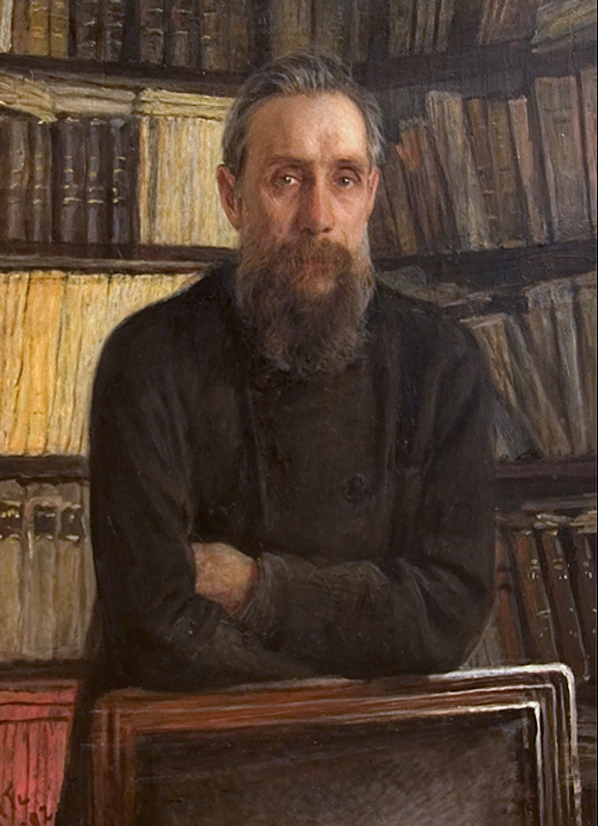 Portrait of P. A. Kostichev.